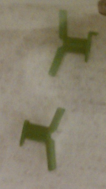 These ear tubes were removed from my 5 year old son on April 15, 2011. They had been inserted in December 2006. These tubes are the "more permanent" type than usual, designed to stay in multiple seasons. One of them fell out naturally and was painlessly removed. The other was partially dislodged and was removed without anesthesia, causing significant discomfort lasting for approximately 3-5 minutes.